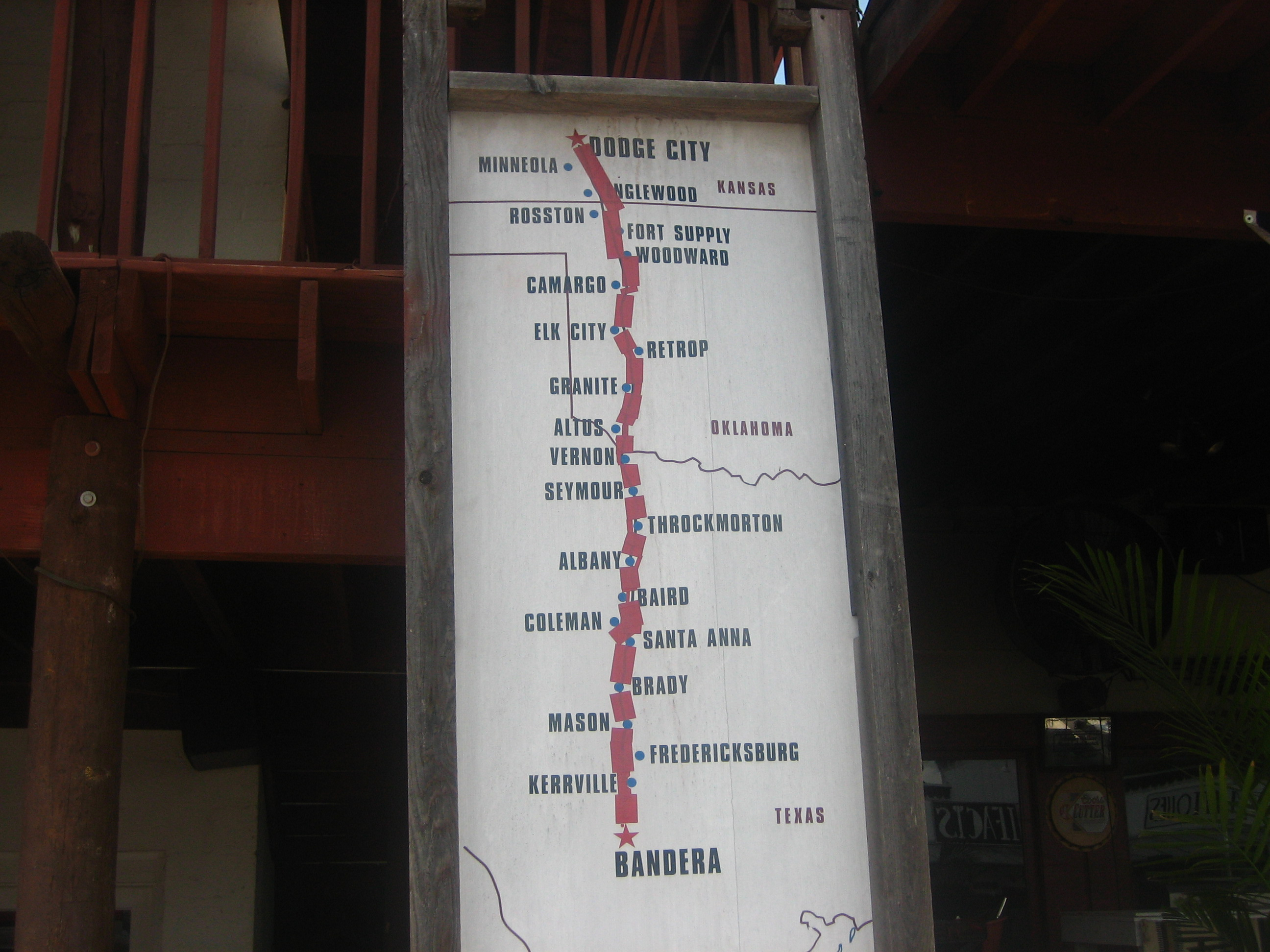 I took photo on July 19, 2008.Billy Hathorn (talk) 03:56, 4 February 2009 (UTC)